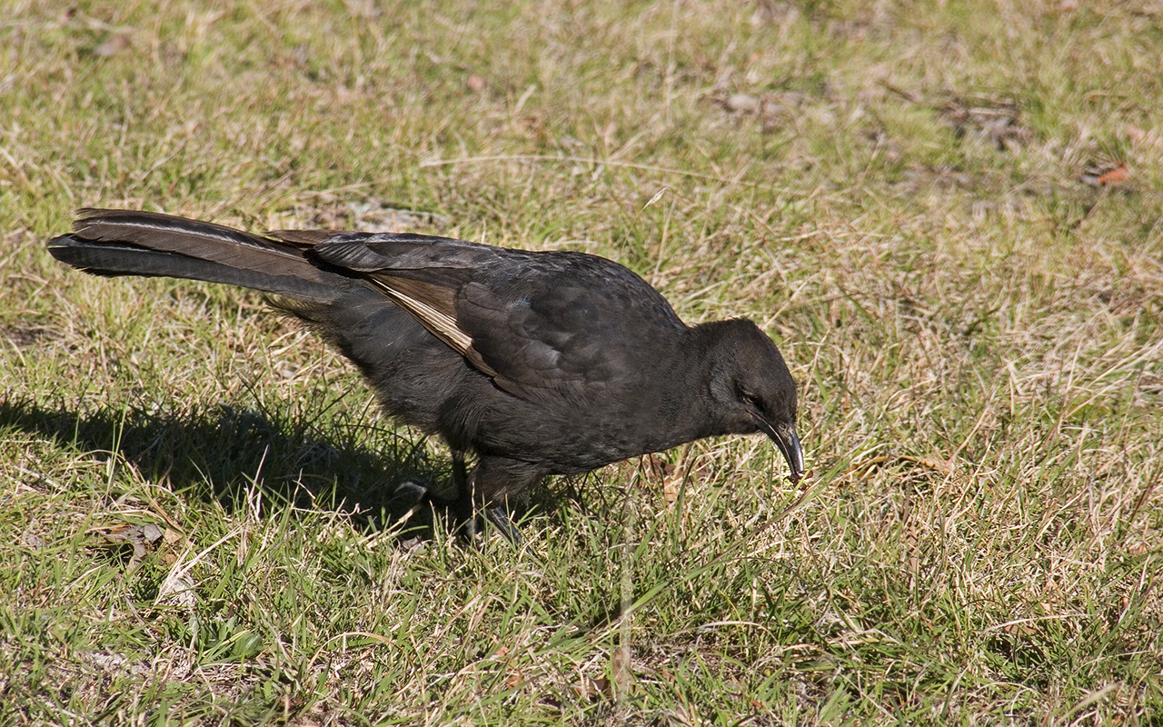 White-winged Chough (Corcorax melanorhamphos) with small beetle in beak.